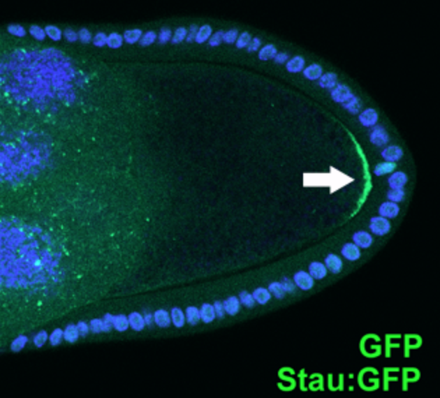 Stauffen protein localization in Drosophila stage 9 oocytes